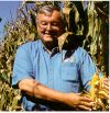 Picture of Harold Reetz